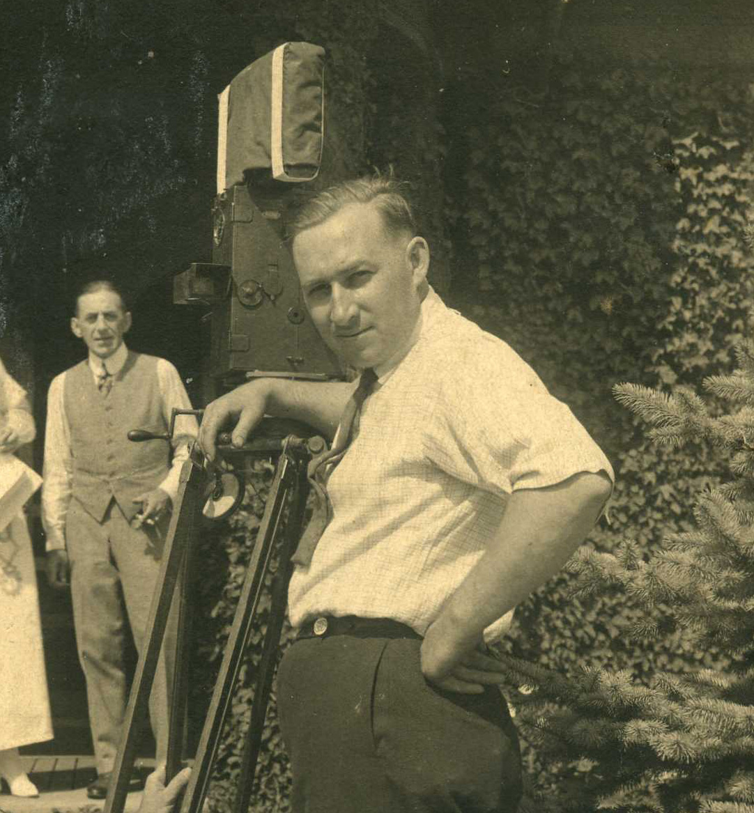 Cinematographer Robert Kurrle, on set on December 16, 1916